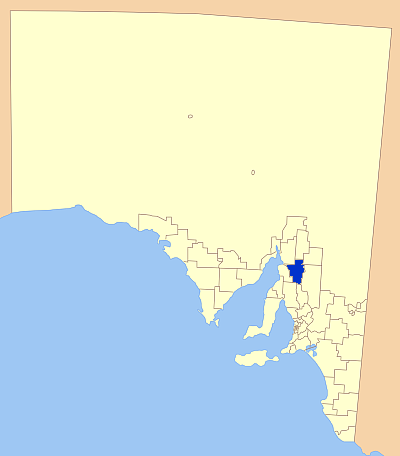 Map of South Australia showing the location of the Northern Areas Local Government Area. A modification of GDFL map by Astrokey44; found here: File:SA_LGA_blank.png